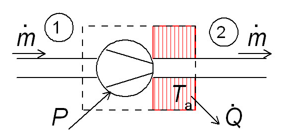 Schematic diagrams of compressor